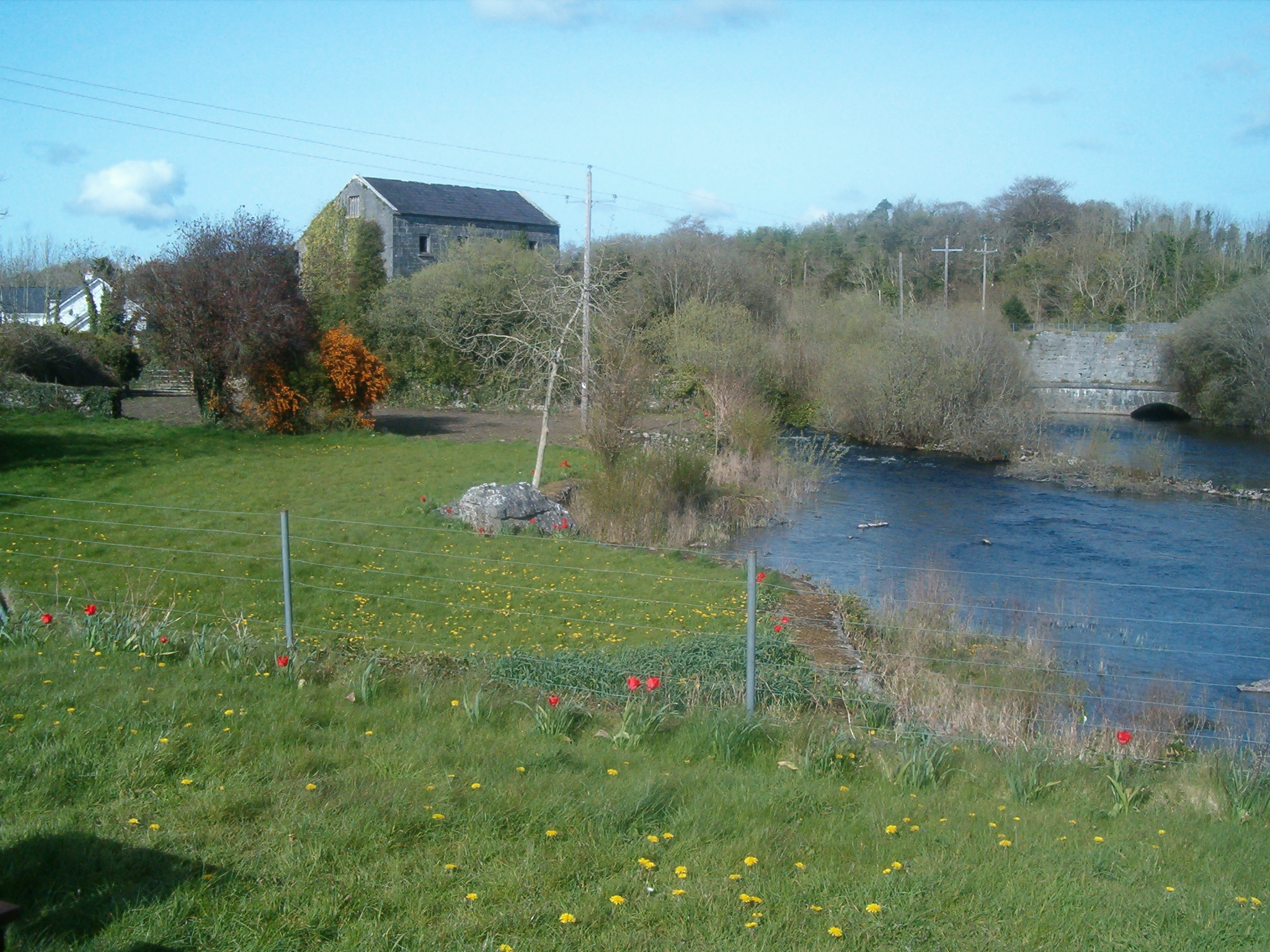 Rustic sight of Cong, County Mayo, Ireland.